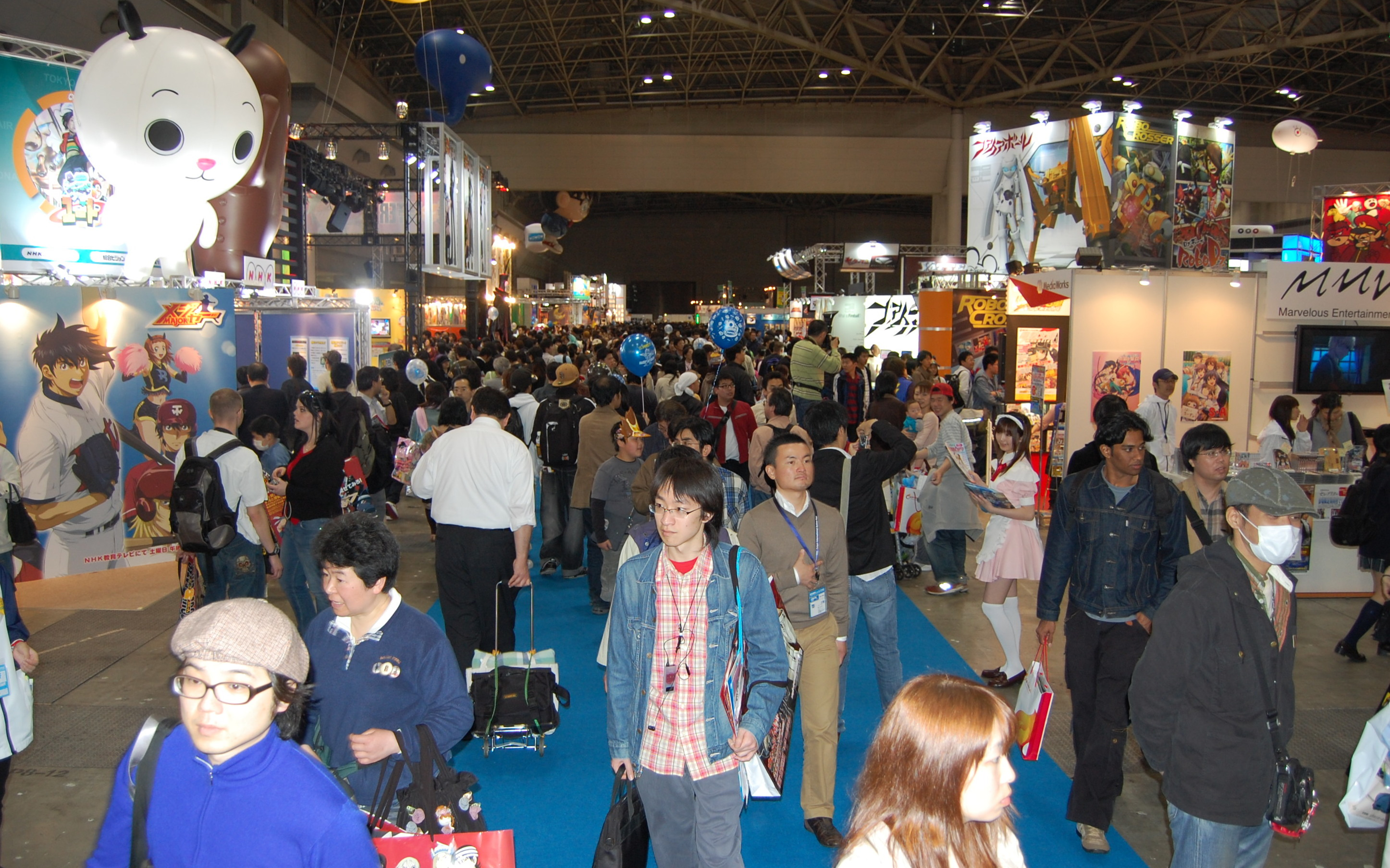 Exhibition hall 3 of the Tokyo International Anime Fair 2008